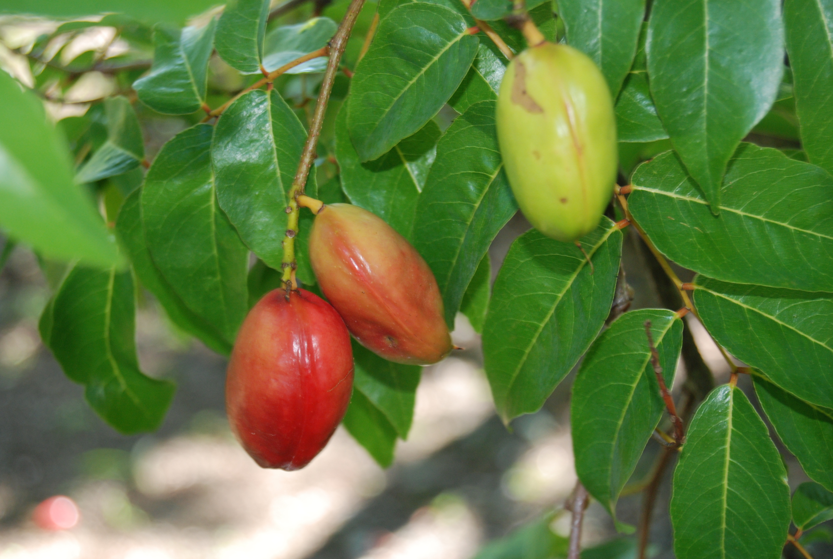 no common name Status: Endangered, Listed on February 5, 1988 Photo by Carlos Pacheco, USFWS Location: Susua, Sabana Grande, Puerto Rico More information at